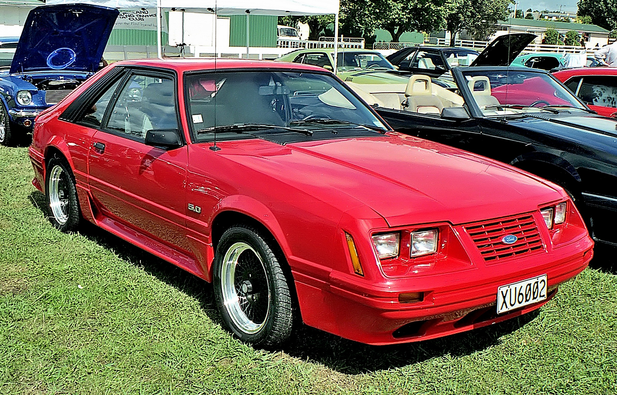 South Auckland,Auckland.New Zealand